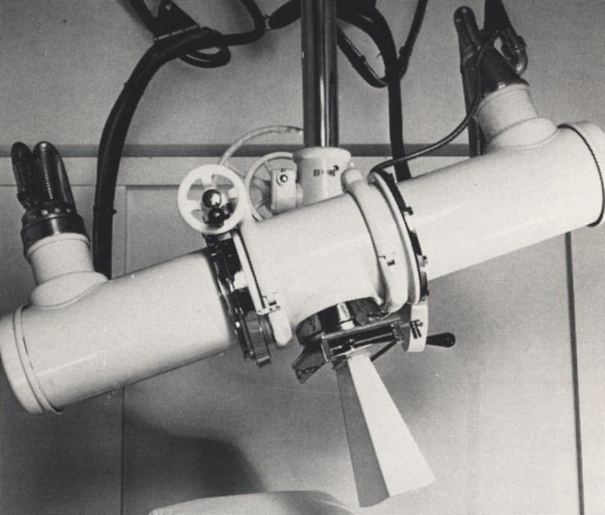 A 200 kilovolt x-ray tube used for radiation therapy in 1938